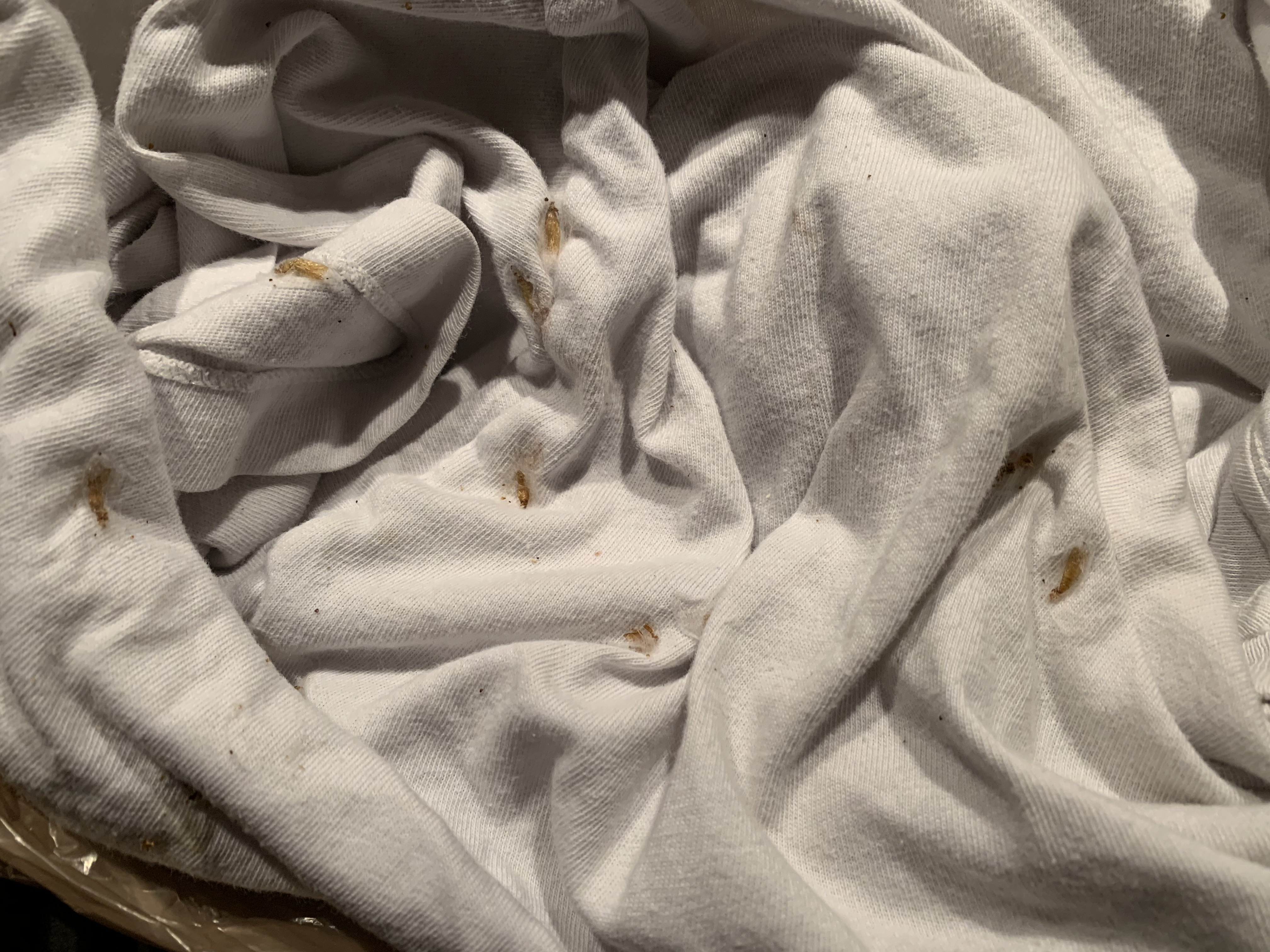 Pantry moth life cycle, reproducing in a single cotton T-shirt inside a drawer. Pantry moths, Pantry moth life cycle, How to get rid of pantry moths